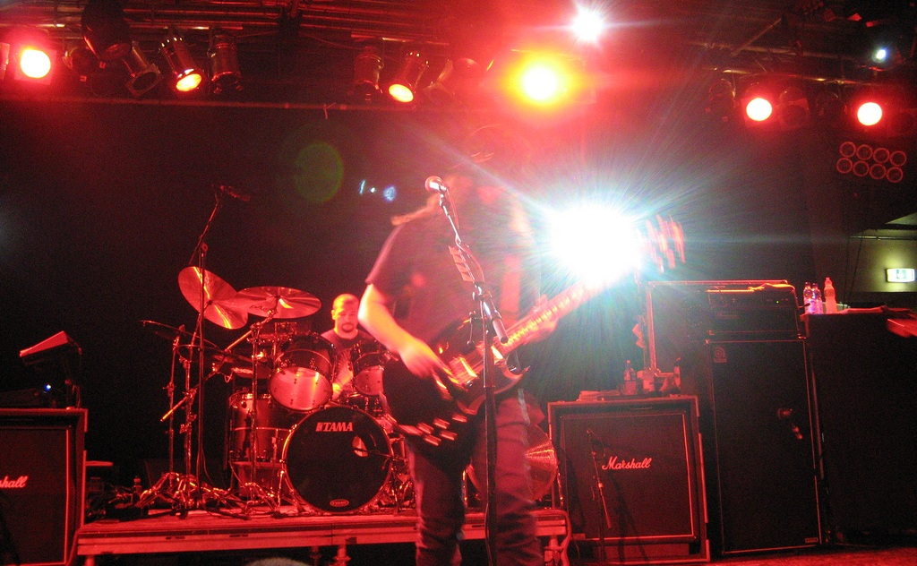 Scars on Broadway on September 3, 2008.